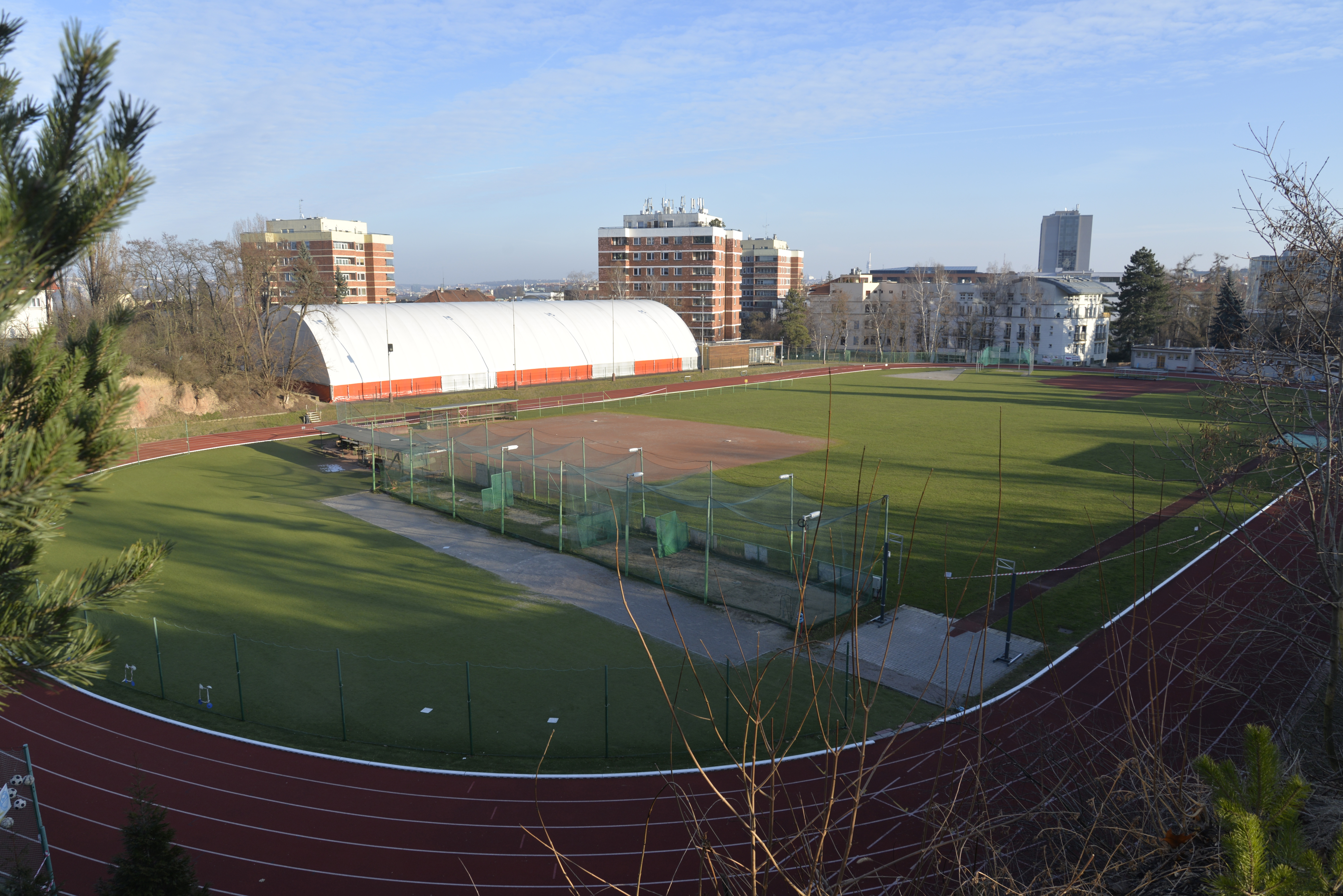 Youth Stadium Kotlářka, Praha, Dejvice